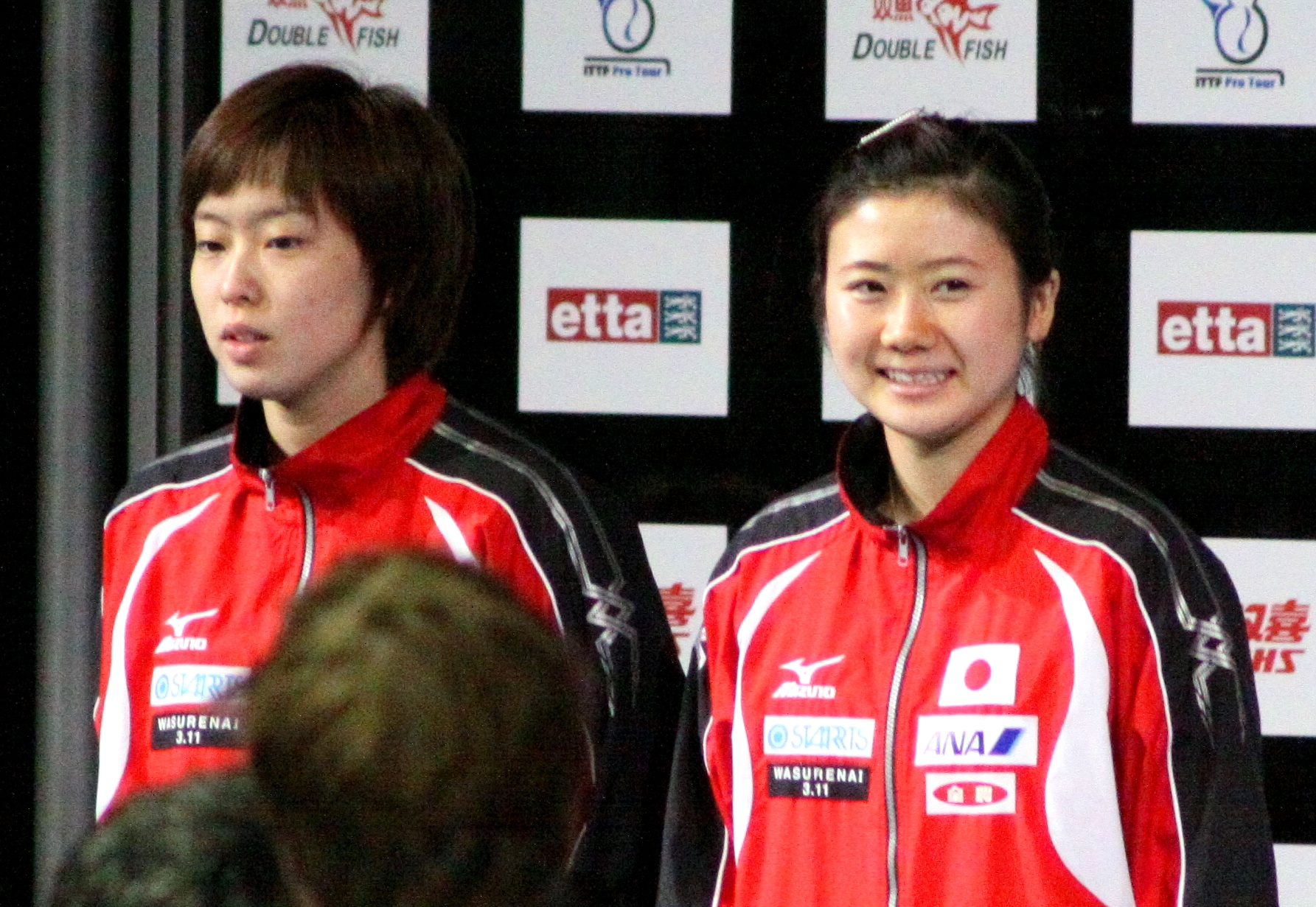 Kasumi Ishikawa (on the left) and Ai Fukuhara during the Table Tennis Pro Tour Grand Finals at the ExCeL London on November 27-28, 2011.